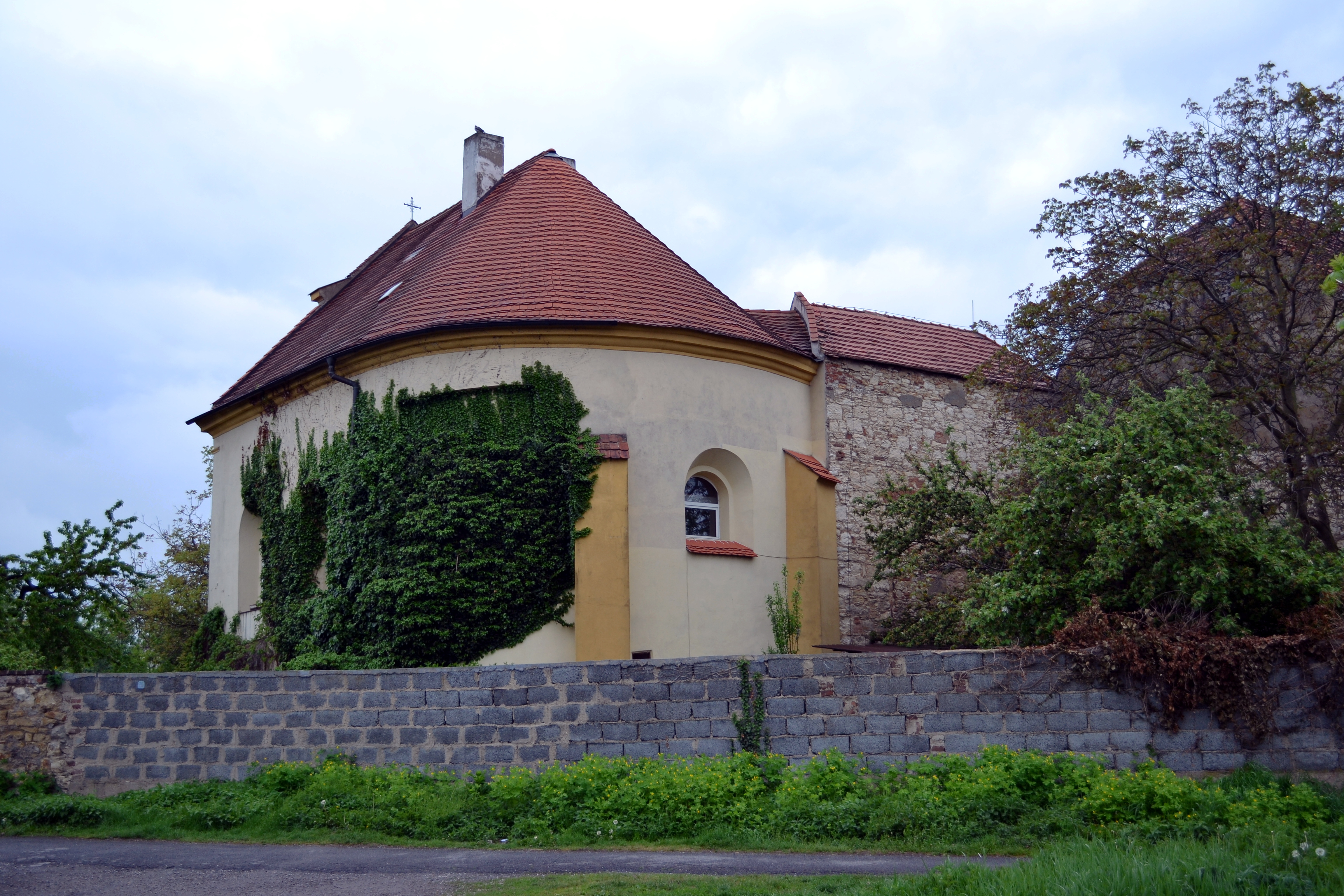 Cultural monument "Velká hospoda s kaplí svatého Martina" ("the Big inn with Saint Martin chapel") at the White Hill. Karlovarská street 1/4, Řepy, Prague 17. Photo of the Saint Martin chapel.